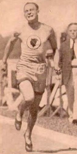 American sprinter Allen Woodring, on page 5 of the February 18, 1922 National Police Gazette.